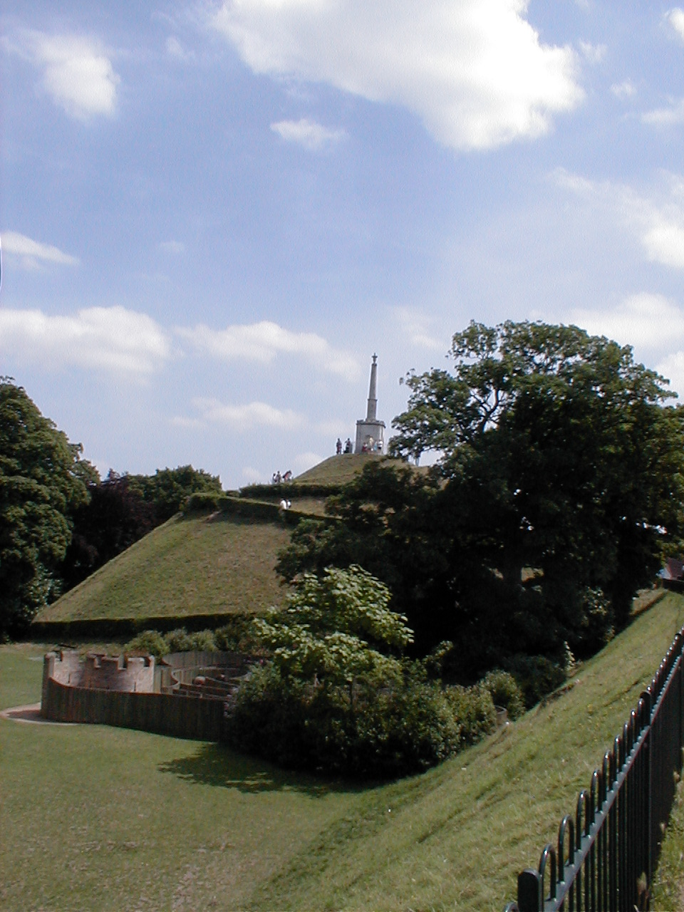 The donjon mound with memorial, Dane John Gardens, Canterbury, Kent. Seen from the (rebuilt) medieval city wall. (description by JackyR from local knowledge)